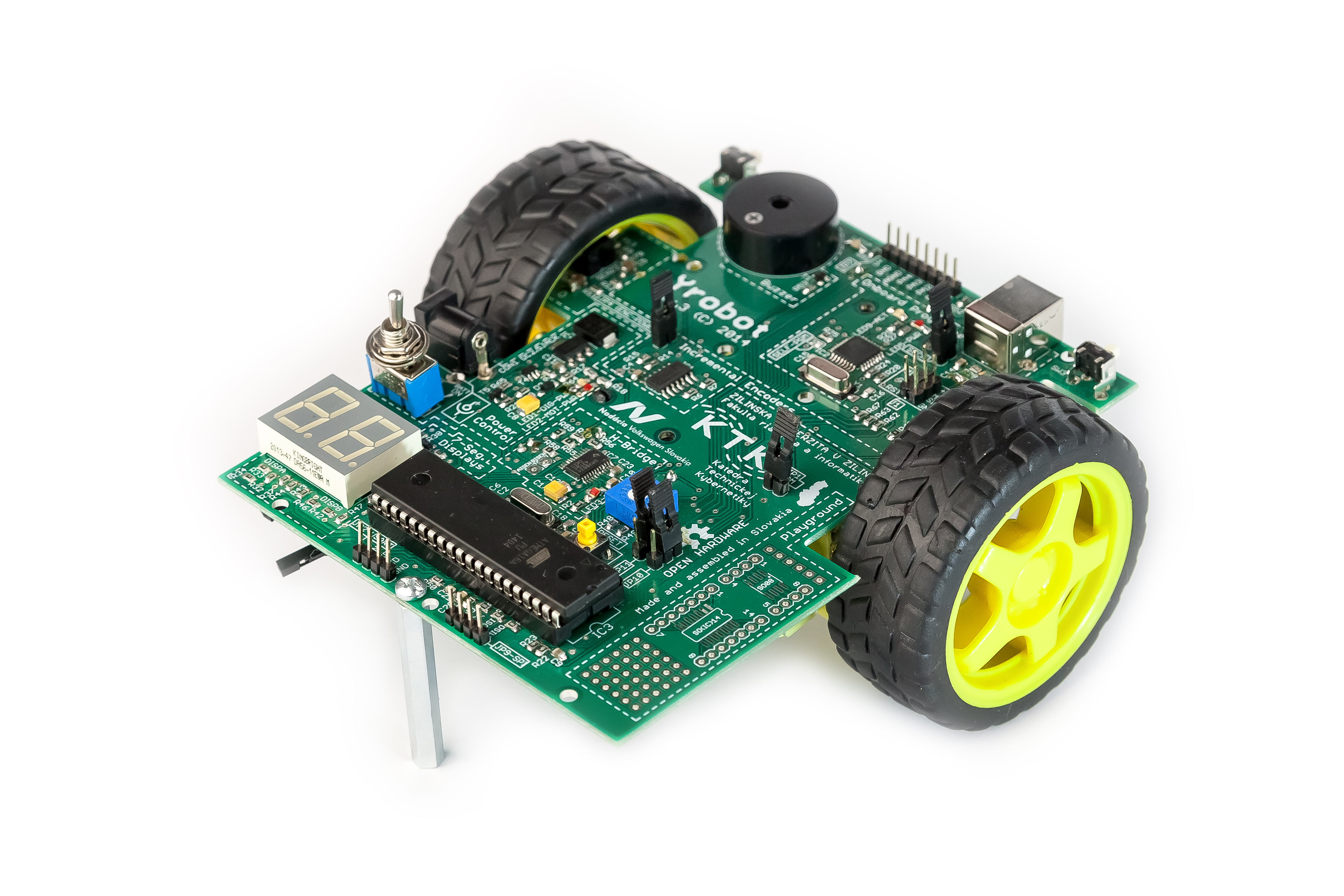 Yrobot